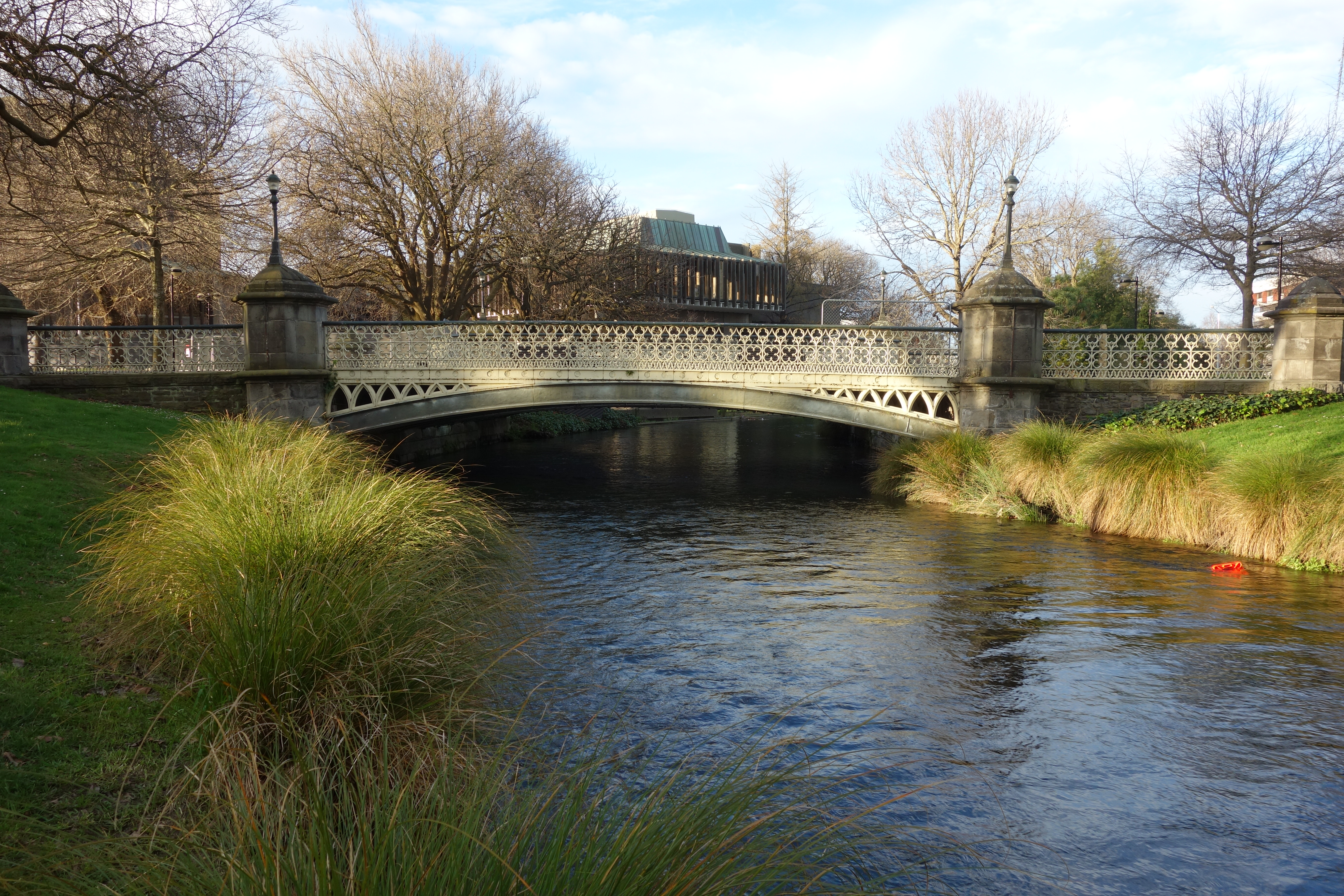 Hamish Hay Bridge in August 2013.